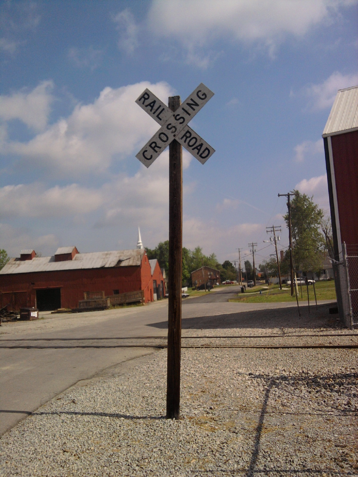 A crossbuck near the Kentucky Railway Museum in New Haven, Kentucky.